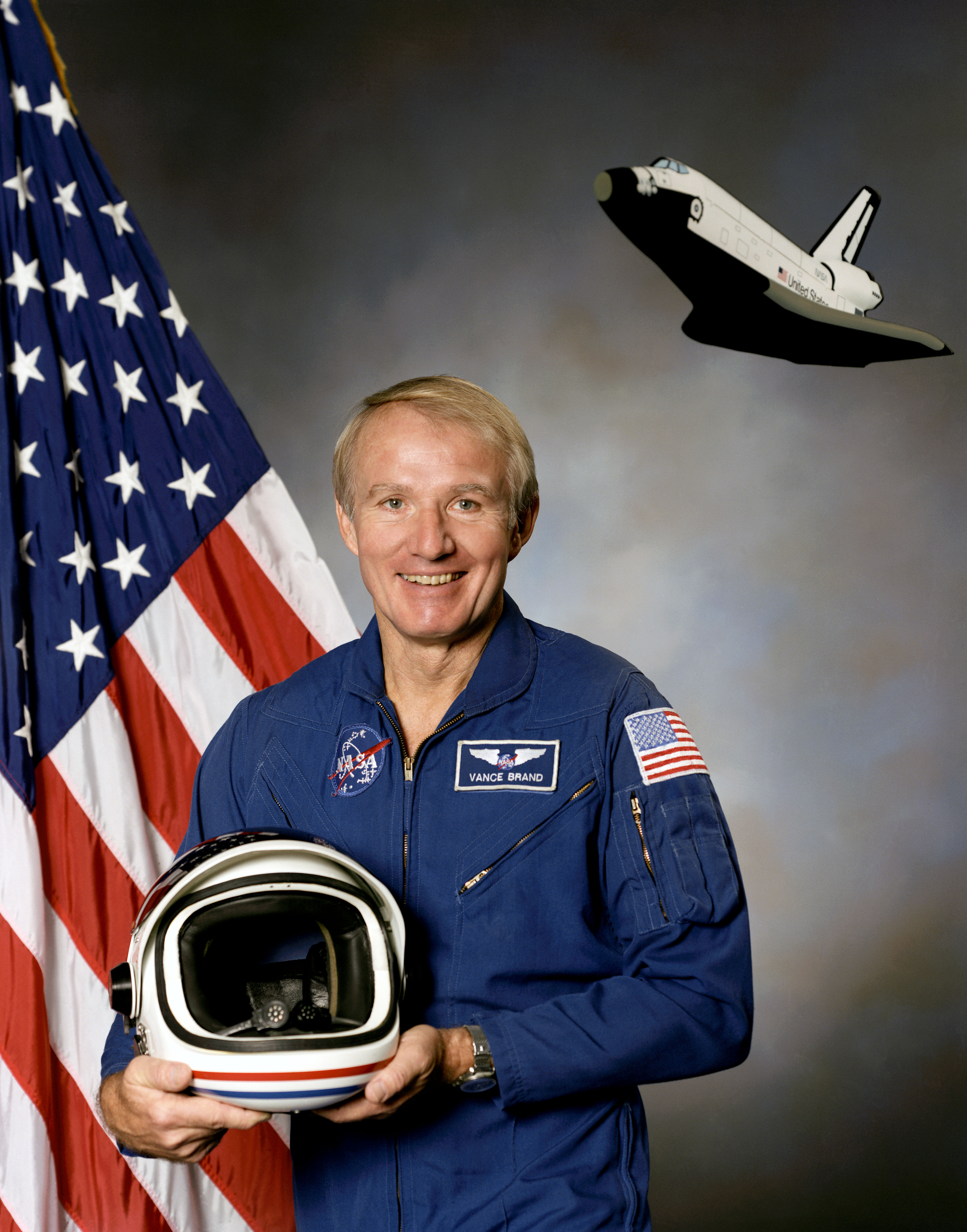 Vance D. Brand in Space Shuttle flight suit